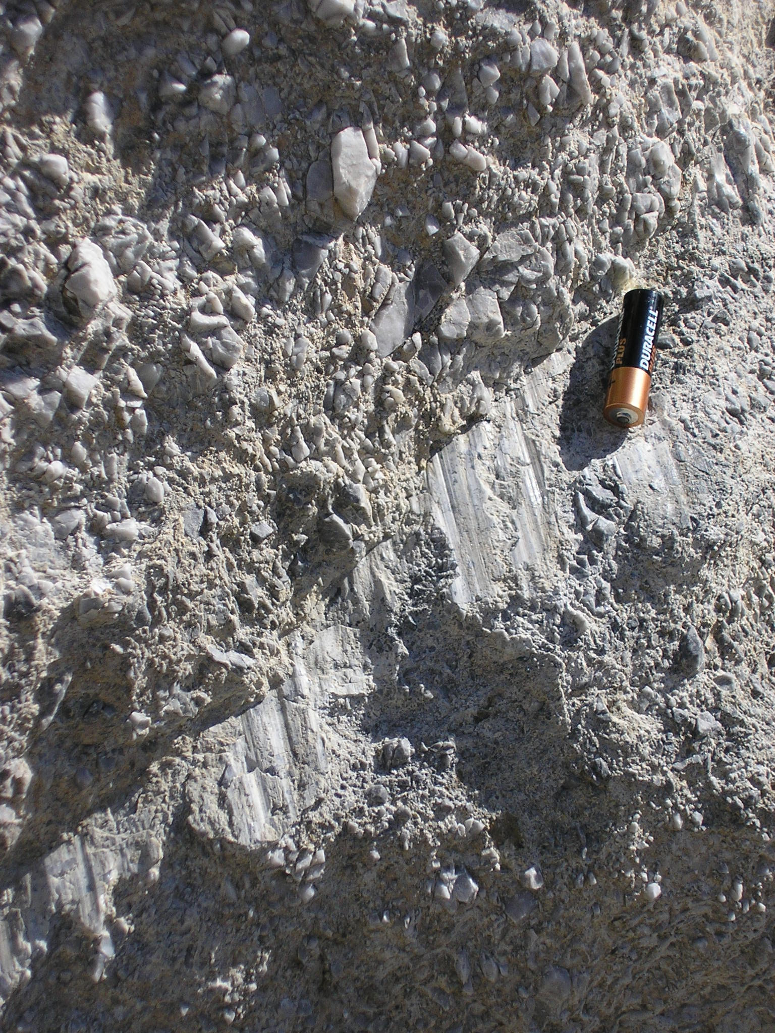 Slickensides developed on small fault cutting quartzites in the Alpujarras, Spain; AA battery for scale